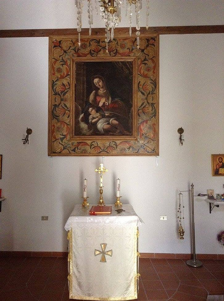 Santa Maria della Consolazione